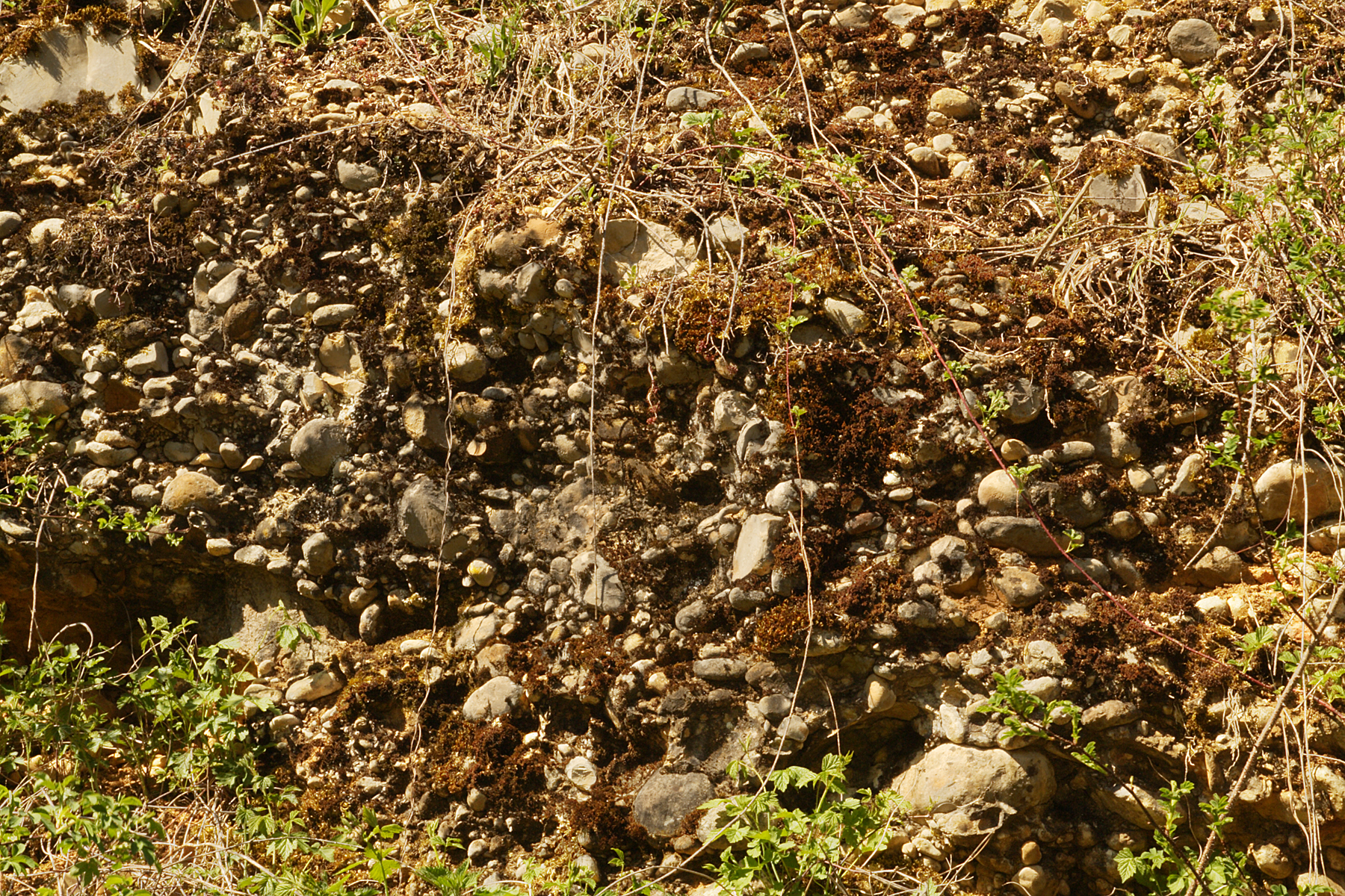 “Jüngere Juranagelfluh”, Middle Miocene, cobbles, a fluvial sediment of the West-Swabian Alb. The cobbles came in chutes from the north (Black Forest, northern foreland and Swabian Alb), associated with “Obere Süßwassermolasse” (Upper Freshwater Molasse). The cobbles came in such tremendous quantities, they produced three giant “runnels”. The dominant being the “Tengen runnel”, of which this photo shows a detail of conglomerates. The deposits piled up to 350 m hight, covering a plain ca. 30 km wide.